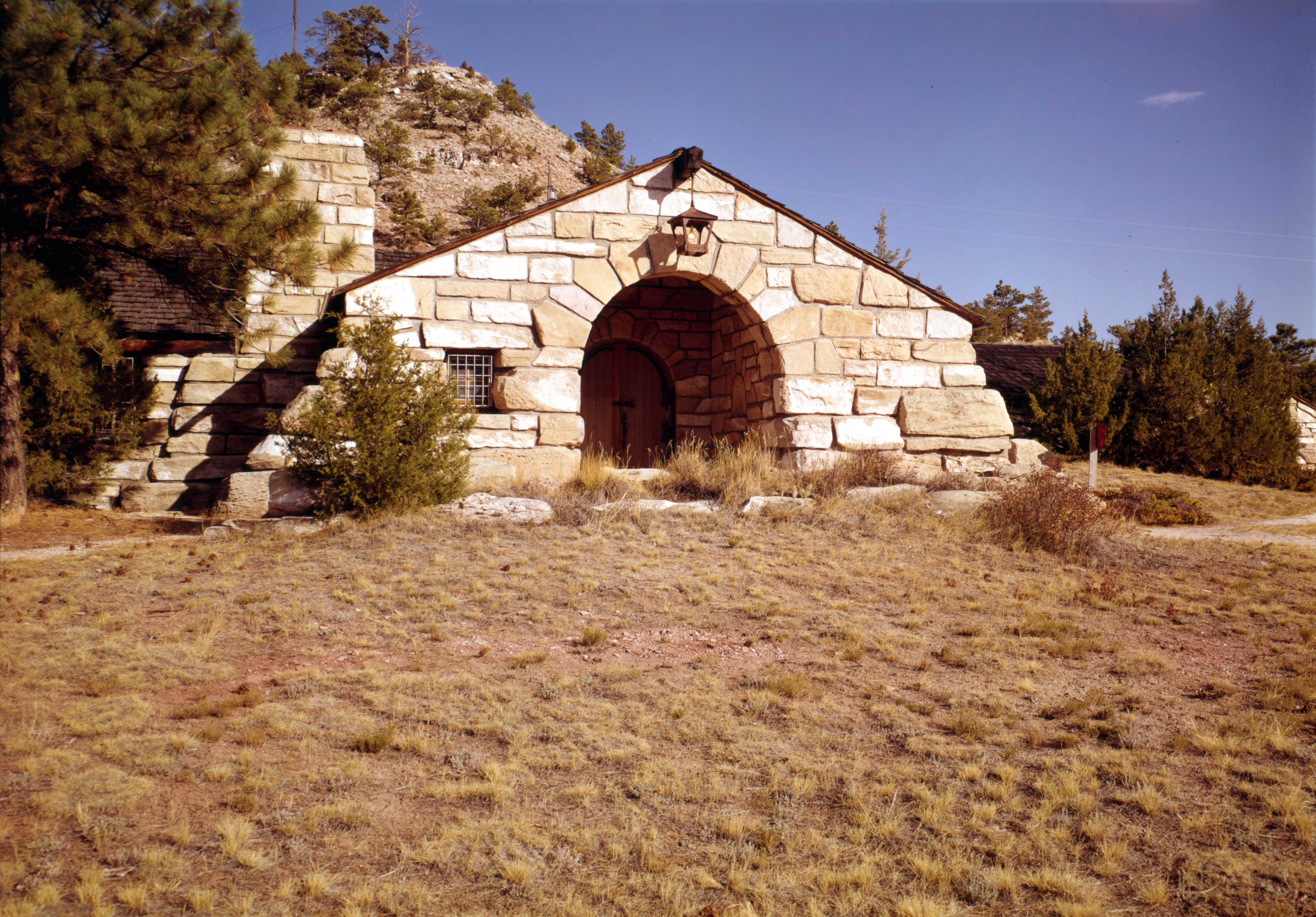 Guernsey State Park Museum — Highway 317, Guernsey (Platte County, Wyoming) (cropped). Image courtesy of Historic American Buildings Survey—HABS.